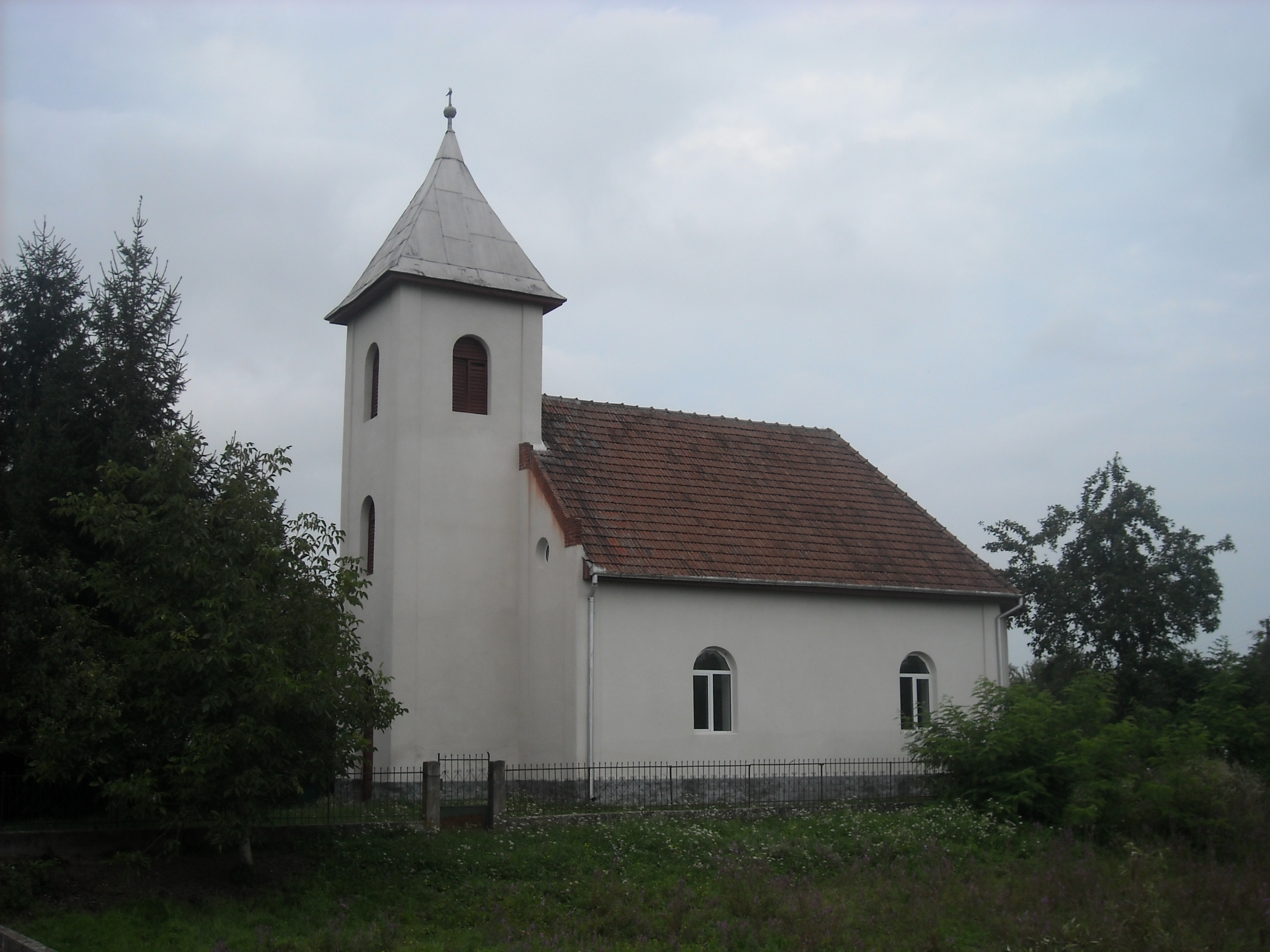 Calvinist church in Băcia/Bácsi, Romania